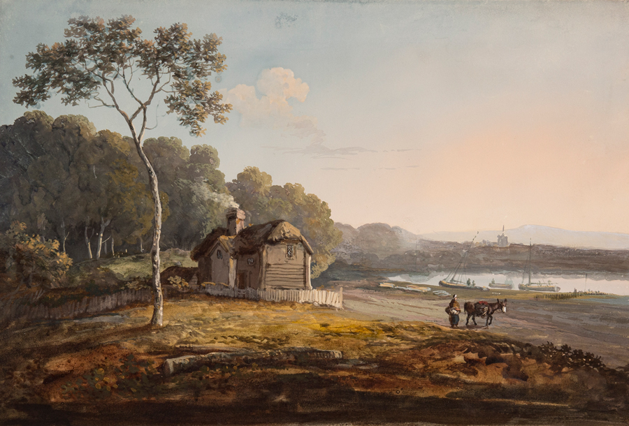 Cottage by an estuary. Gouache. Ex. Collection: Henry Rogers Broughton, 2nd Lord Fairhaven (1900-1973) 8.75x13 inches.